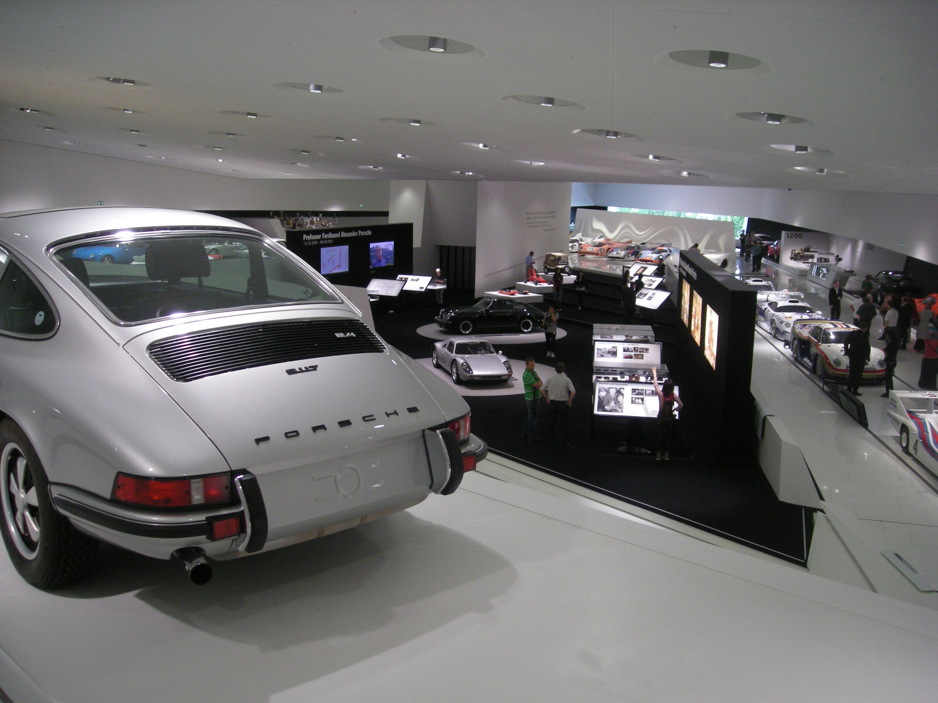 The interior of the Porsche Museum (with a 1973 Porsche 911 T in the foreground) in Stuttgart, Baden-Württemberg (Germany).